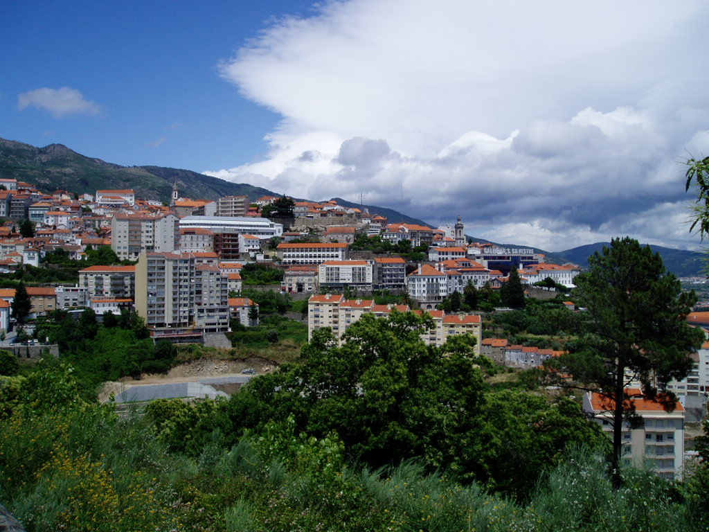 The centre of Covilhã seen from Rua Morais do Convento.